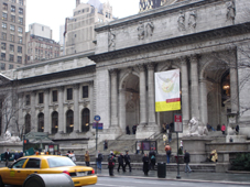 New York Public Library